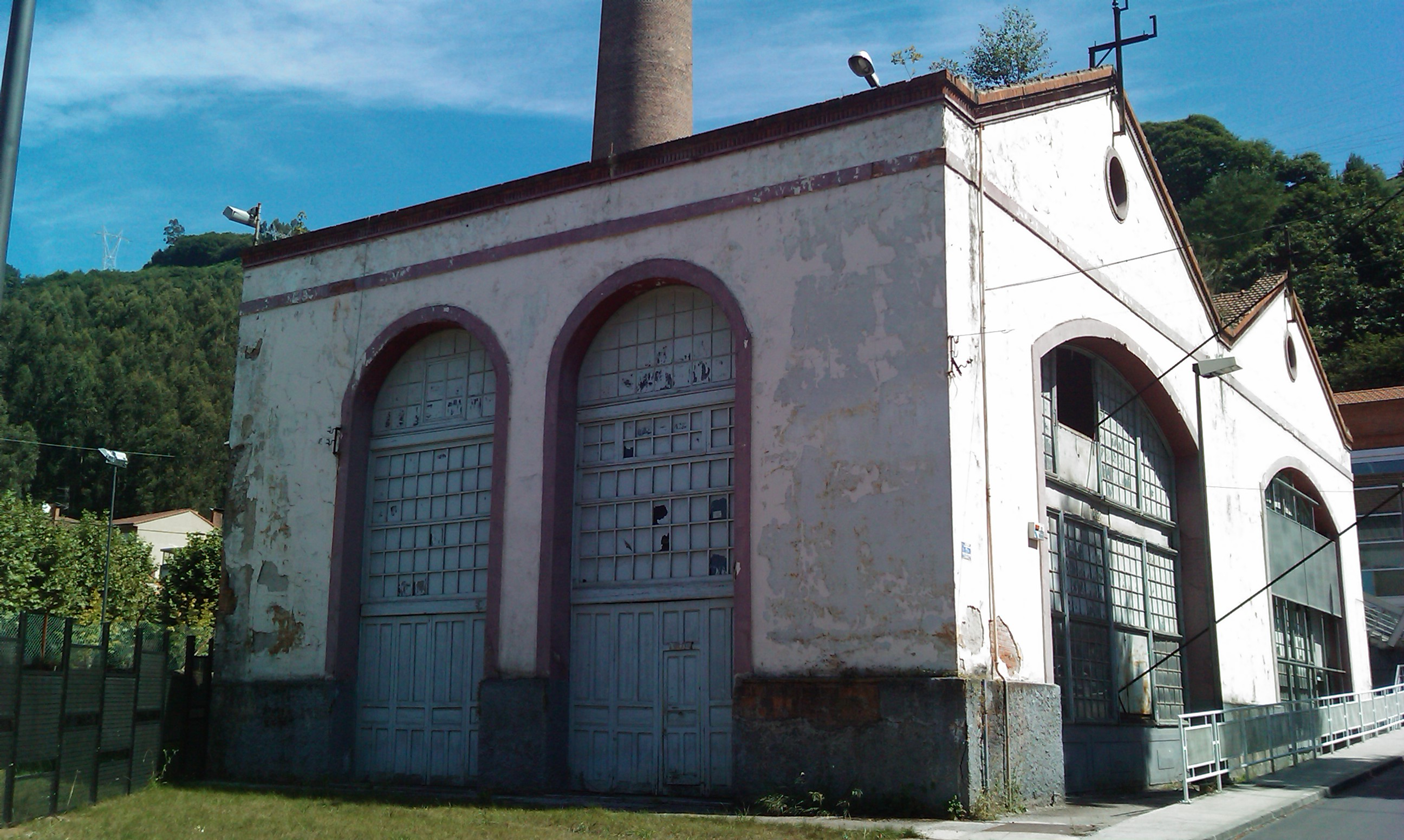 Winding engine house of Barredo Pit, Mieres, Asturias, Spain